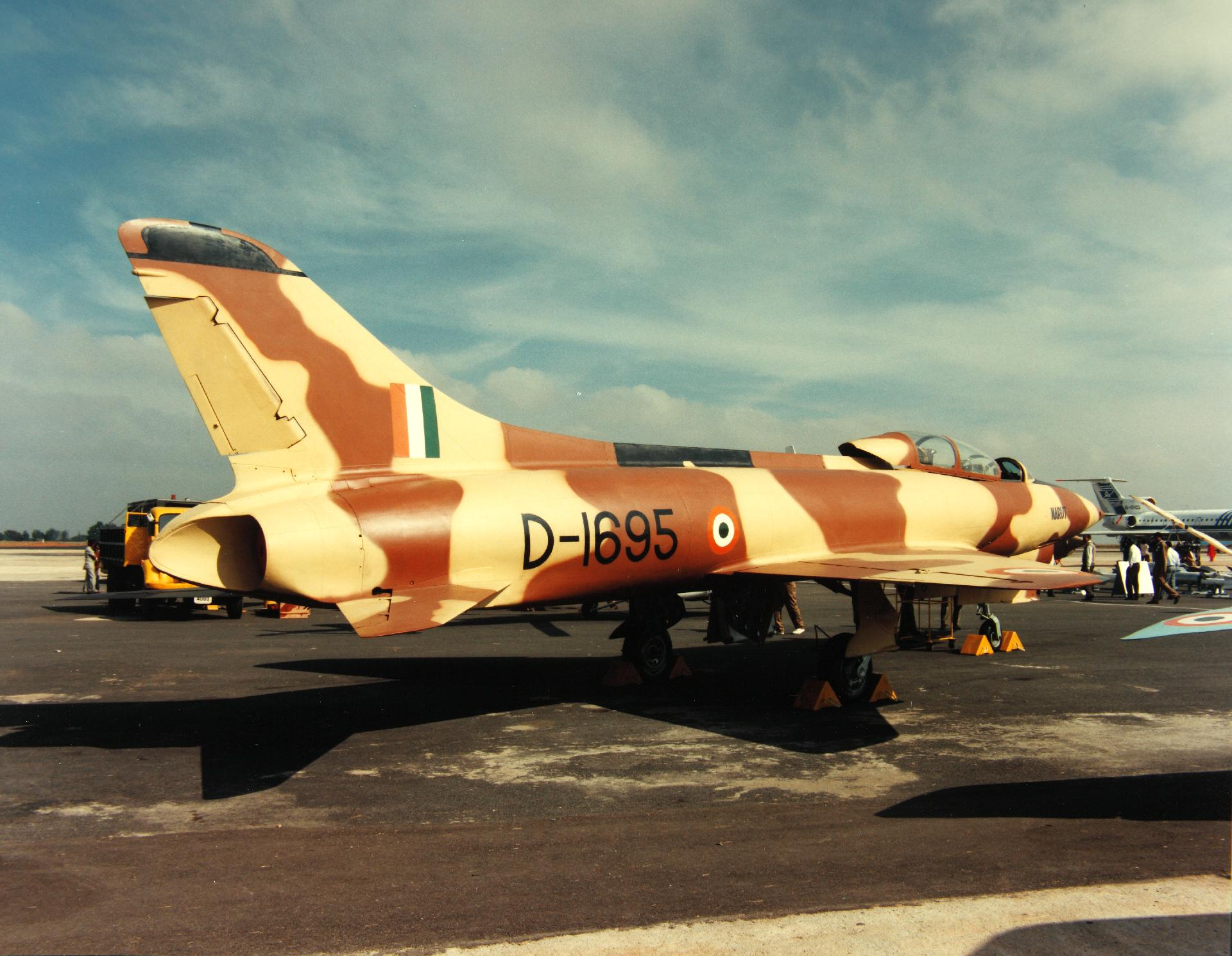 Catalog #: 01_00081378 Title: HAL (Hindustan Aeronautics), HF-24, Marut Corporation Name: HAL (Hindustan Aeronautics) Official Nickname: Marut Additional Information: India Designation: HF-24 Tags: HAL (Hindustan Aeronautics), HF-24, Marut Repository: San Diego Air and Space Museum Archive